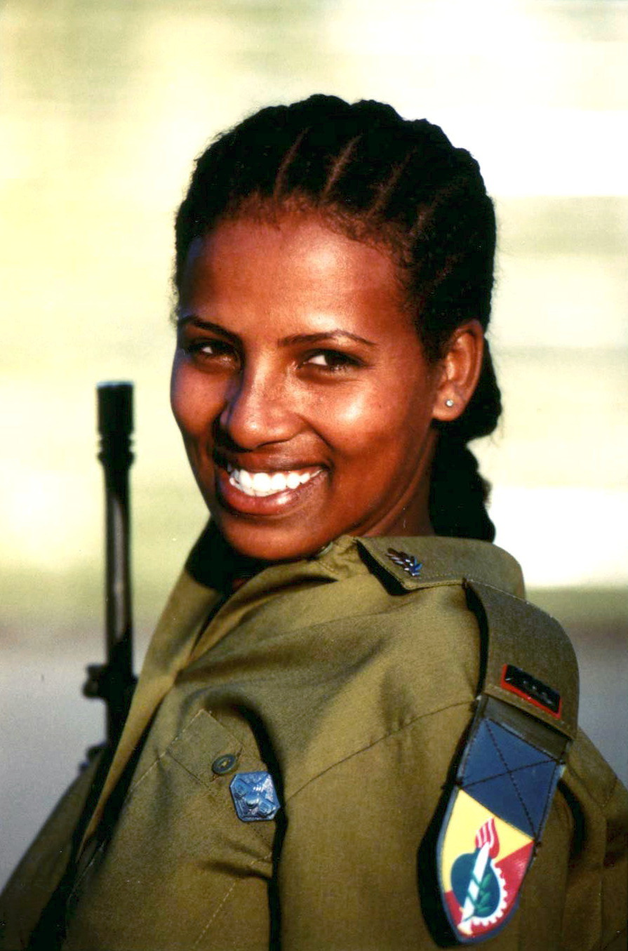 The first Ethiopian ordnance officer in Israeli history is shown here right after finishing her officer's course ceremony at the ordnance school.